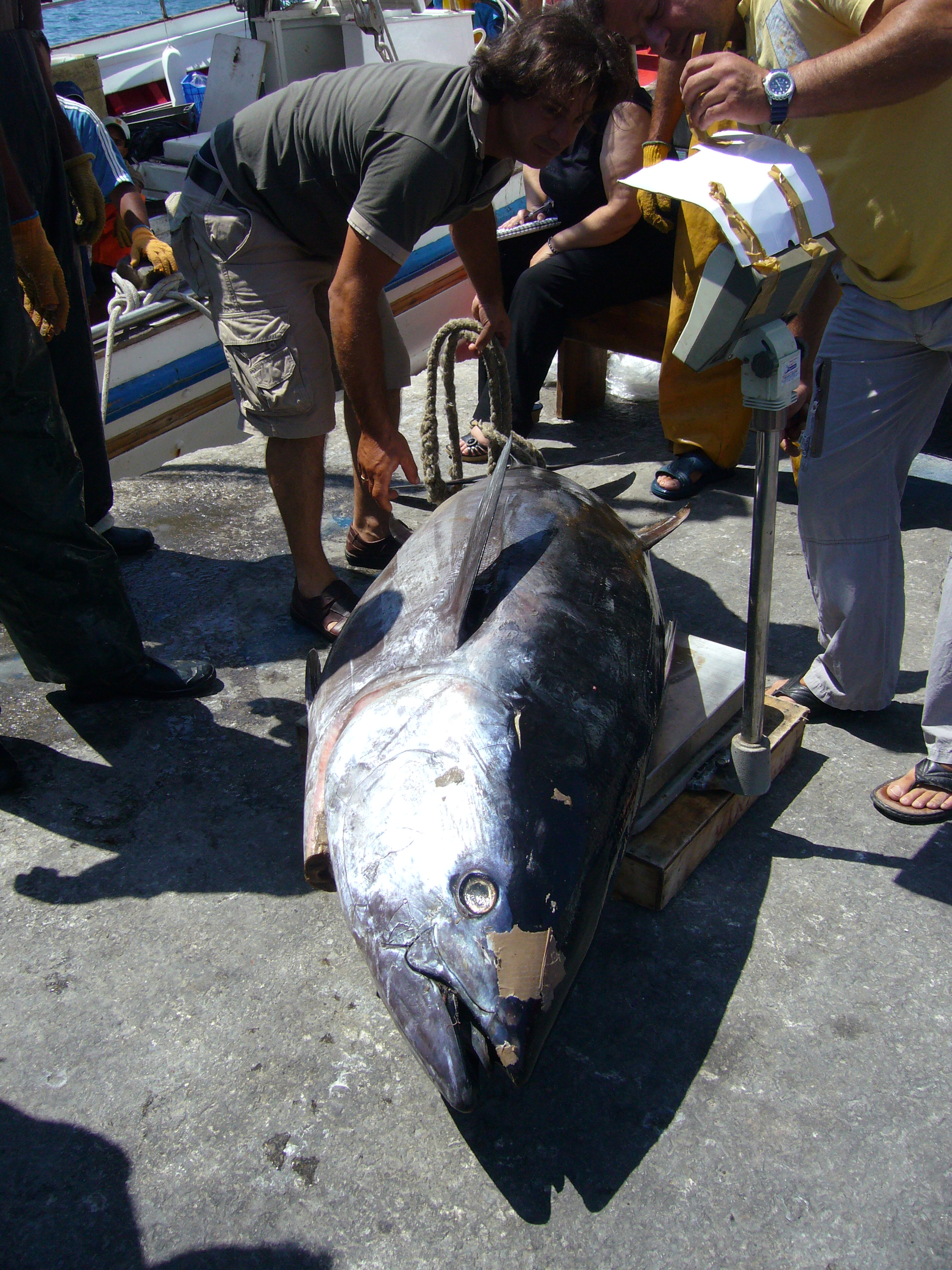 Catchweighing instrument. Tuna fish being weighed on quay-side in Greece